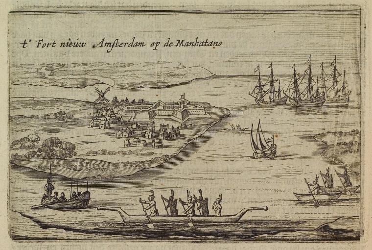 "Earliest Picture of Manhattan" (Image of Fort Amsterdam on Manhattan)